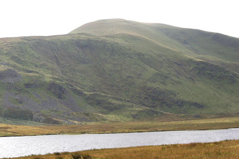 Llyn Dwythwch, Yr Wyddfa, Gwynedd